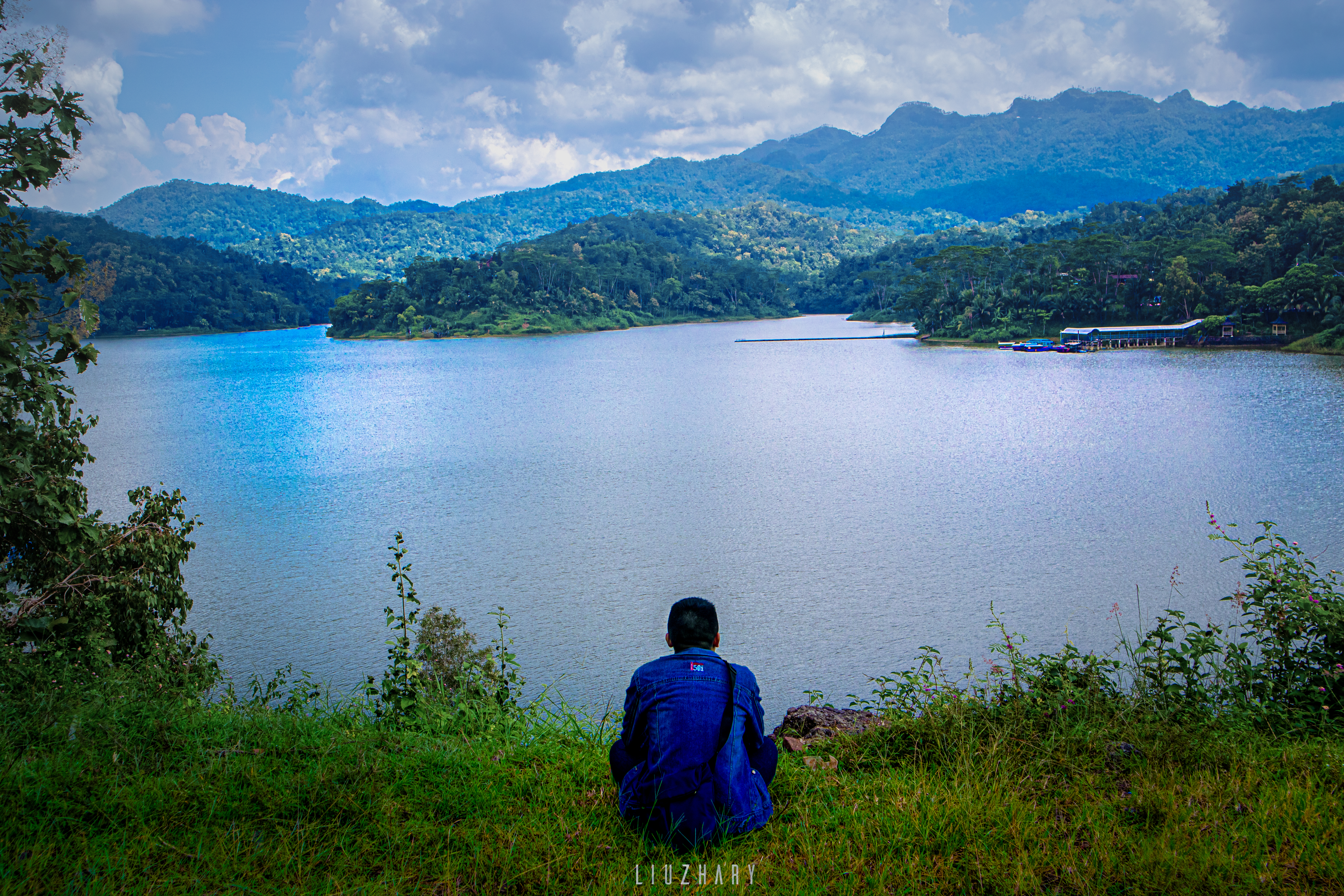 An artificial lake located in Jogjakarta named Sermo Reservoir, with a calm atmosphere and fresh air